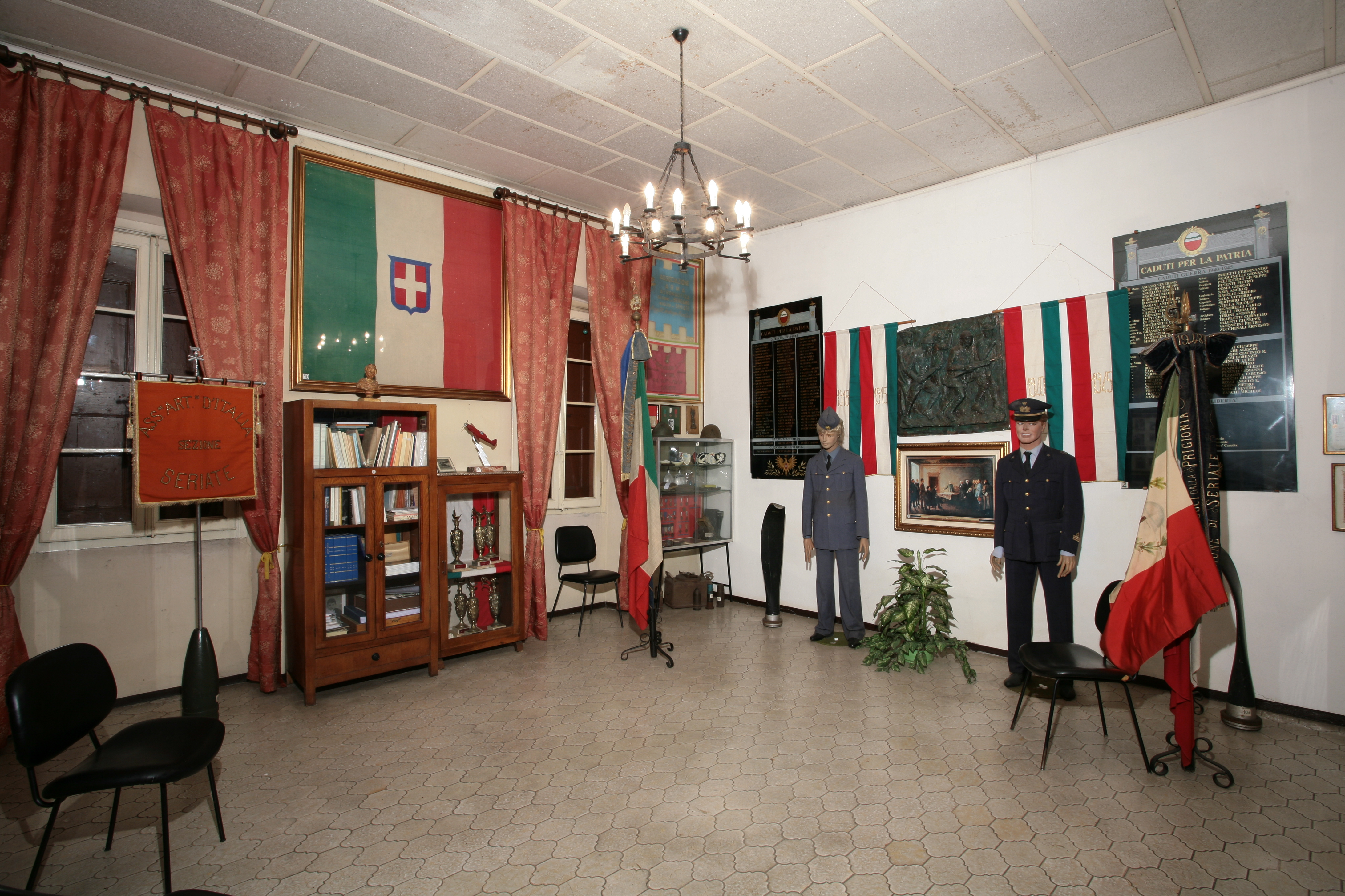 Museo carozzi